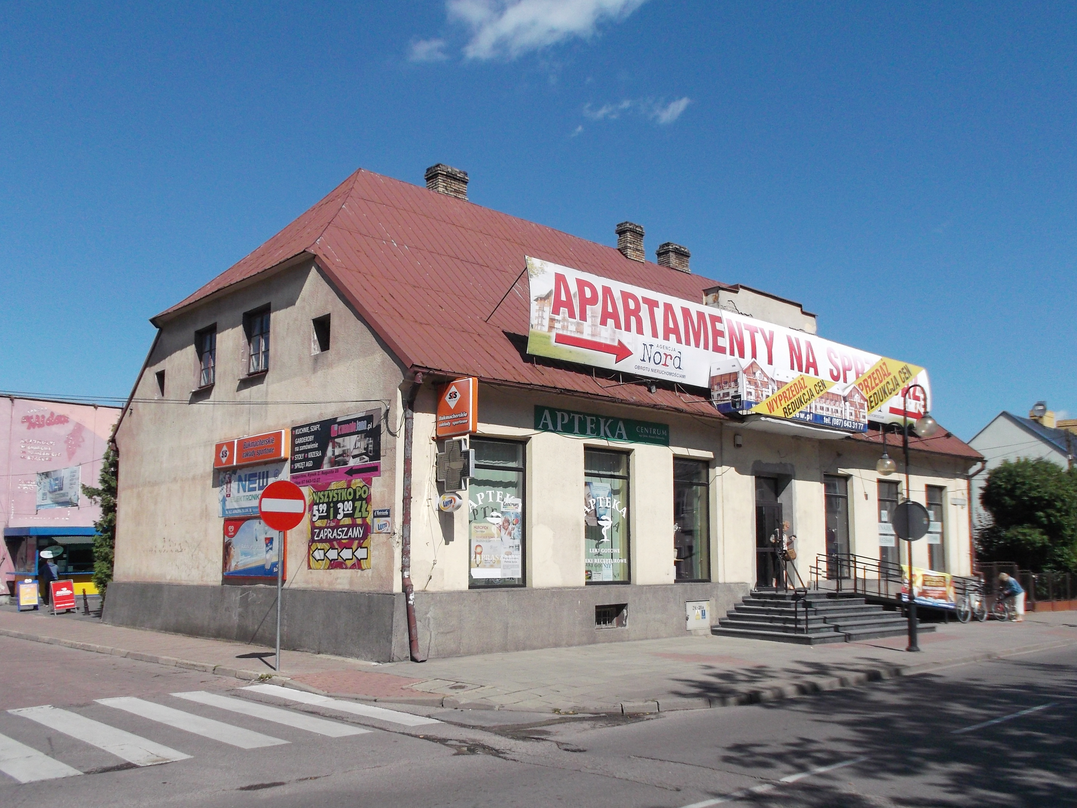 Tenement house, 28 Rynek Zygmunta Augusta in Augustów, about 1800.